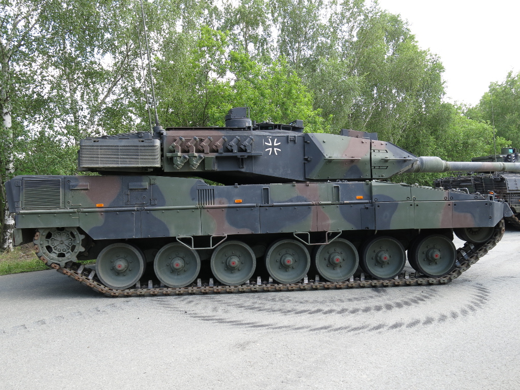 Leopard 2 A7 view of right side